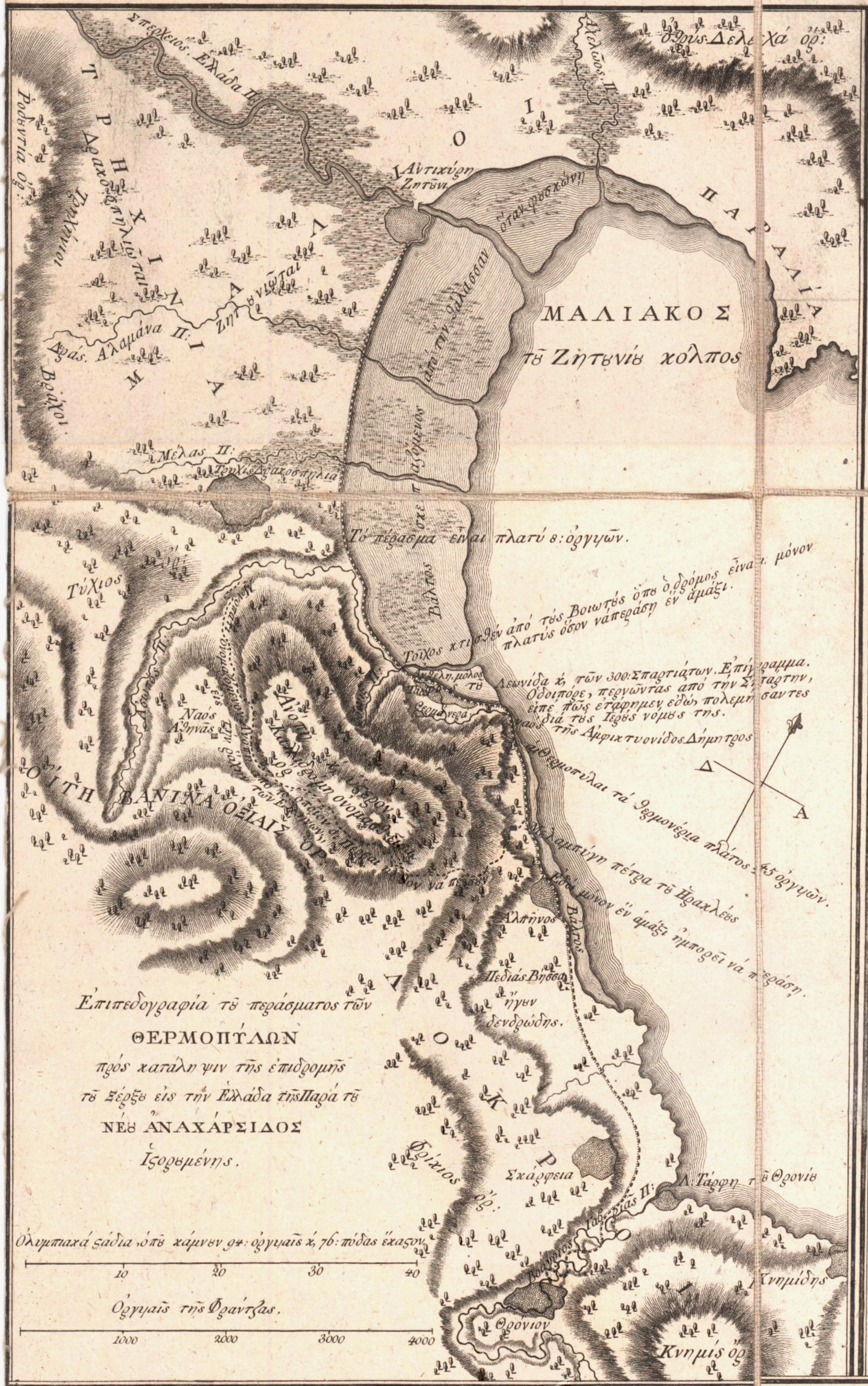 (Part 2 - Thermopylae) Charta of Greece / Rigas Charta, Rigas Velestinlis, 1797